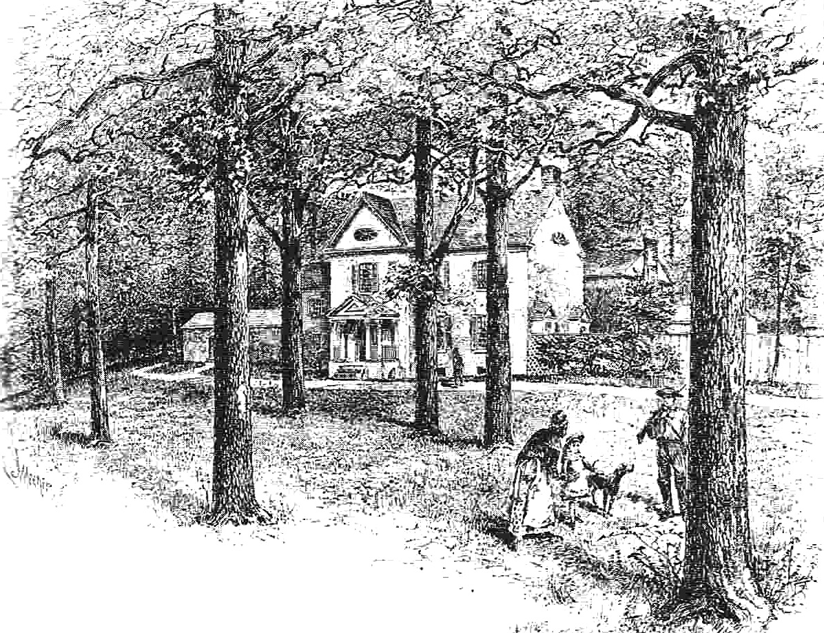 Sketch of Vaucluse plantation, Virginia.